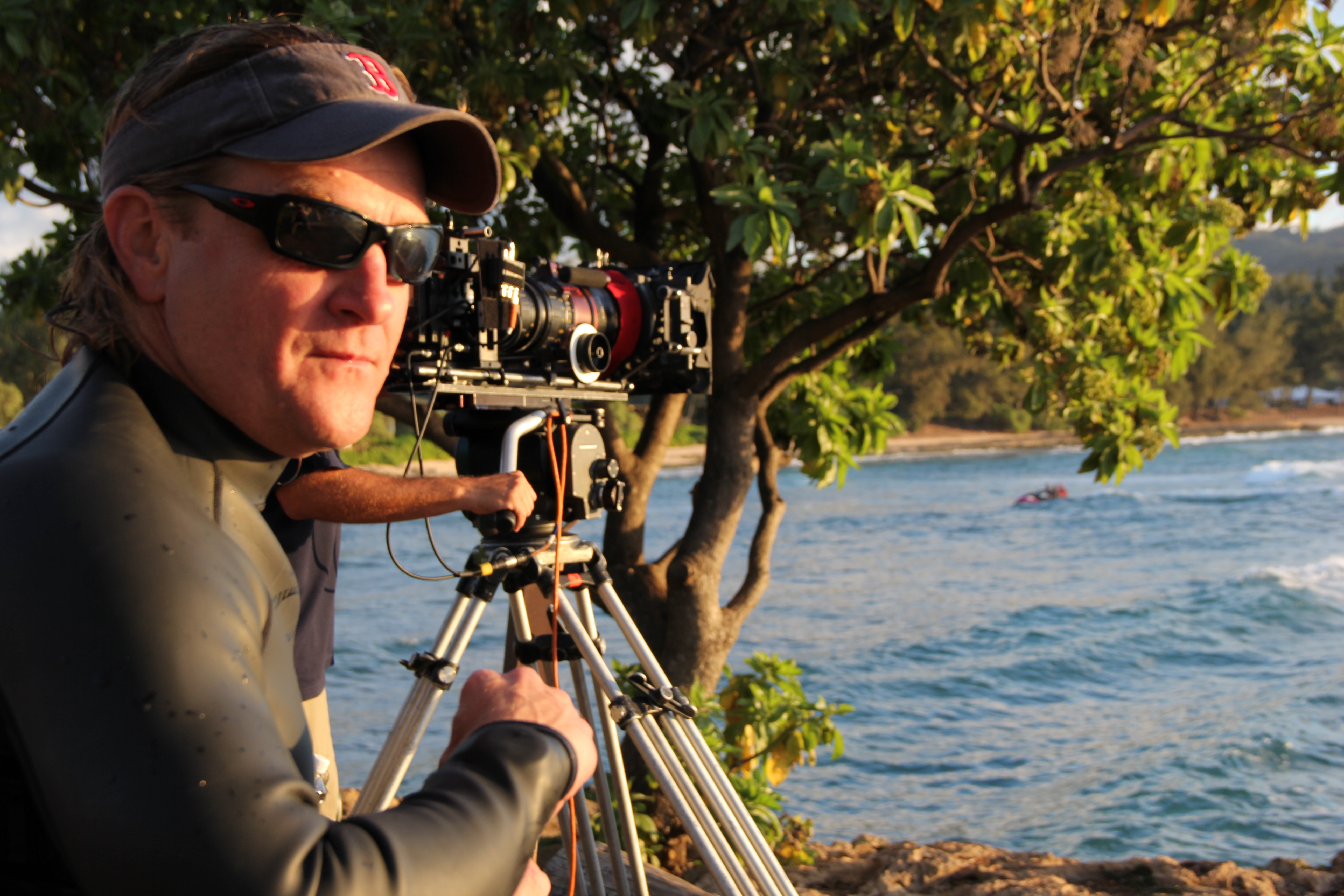 On location in Oahu Hawaii for the filming of "Fairly Odd Summer"